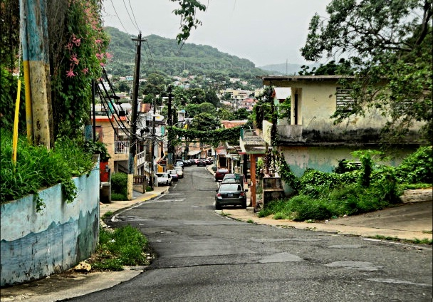 Cuesta Vieja, street in Aguadilla, Puerto Rico